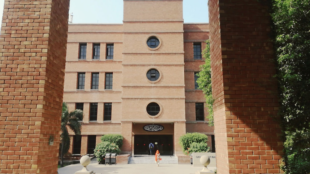 The Gad & Birgit Rausing Library at LUMS Houses Over 268,000 Books And 180,000 Electronic Books